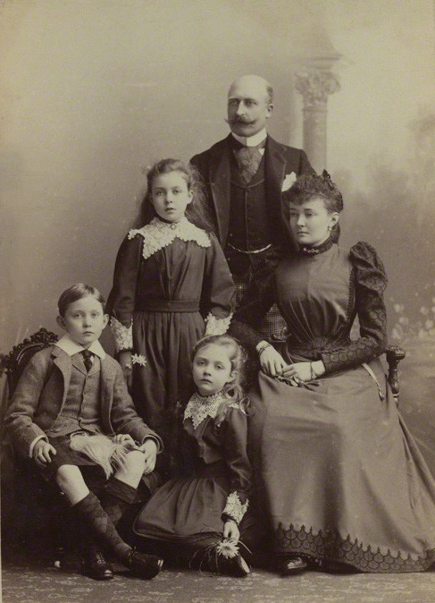 The Duke and Duchess of Connaught with their children. Portrait by Hughes & Mullins, 1893. Prince Arthur of Connaught (1883-1938) Princess Louise, Duchess of Connaught (1860-1917) Prince Arthur, 1st Duke of Connaught and Strathearn (1850-1942) Margaret, Crown Princess of Sweden (1882-1920) Princess Patricia of Connaught (later Lady Patricia Ramsay) (1886-1974)